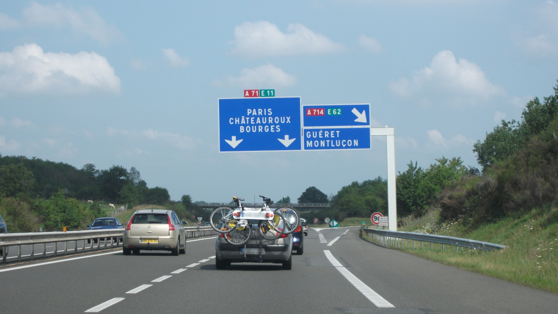 Interchange between E11 A71 (tw Nantes [hidden mention], Paris, Châteauroux and Bourges) and E62 A714 (Guéret, Montluçon).